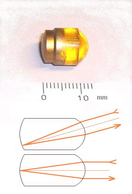 cat´s eye, made of glass with a mirror at the left side, drawings illustrate the principle of operation